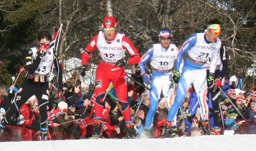 FIS Nordic World Ski Championships 2011 in Oslo. At an early stage of men's 50 km four competitors are fighting in front: 43 Noah Hoffman (USA); 12 Martin Johnsrud Sundby (Norway); 10 Roland Clara (Italy); 21 Pietro Piller Cottrer (Italy)